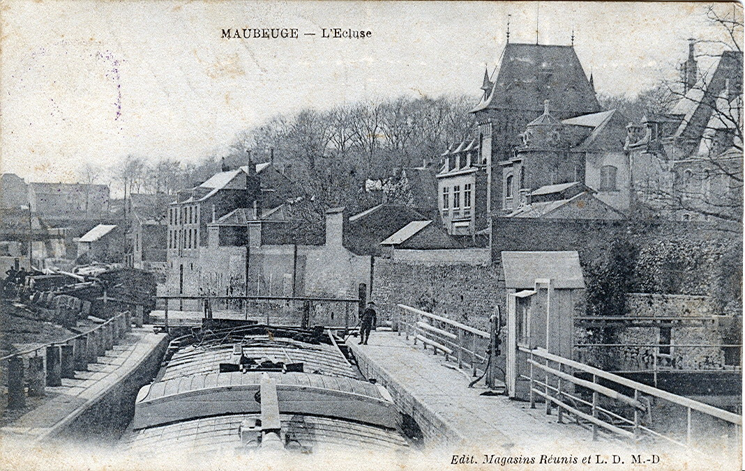 Postcard, dated 24.4.1915. Title: "Maubeuge - L´Ecluse"